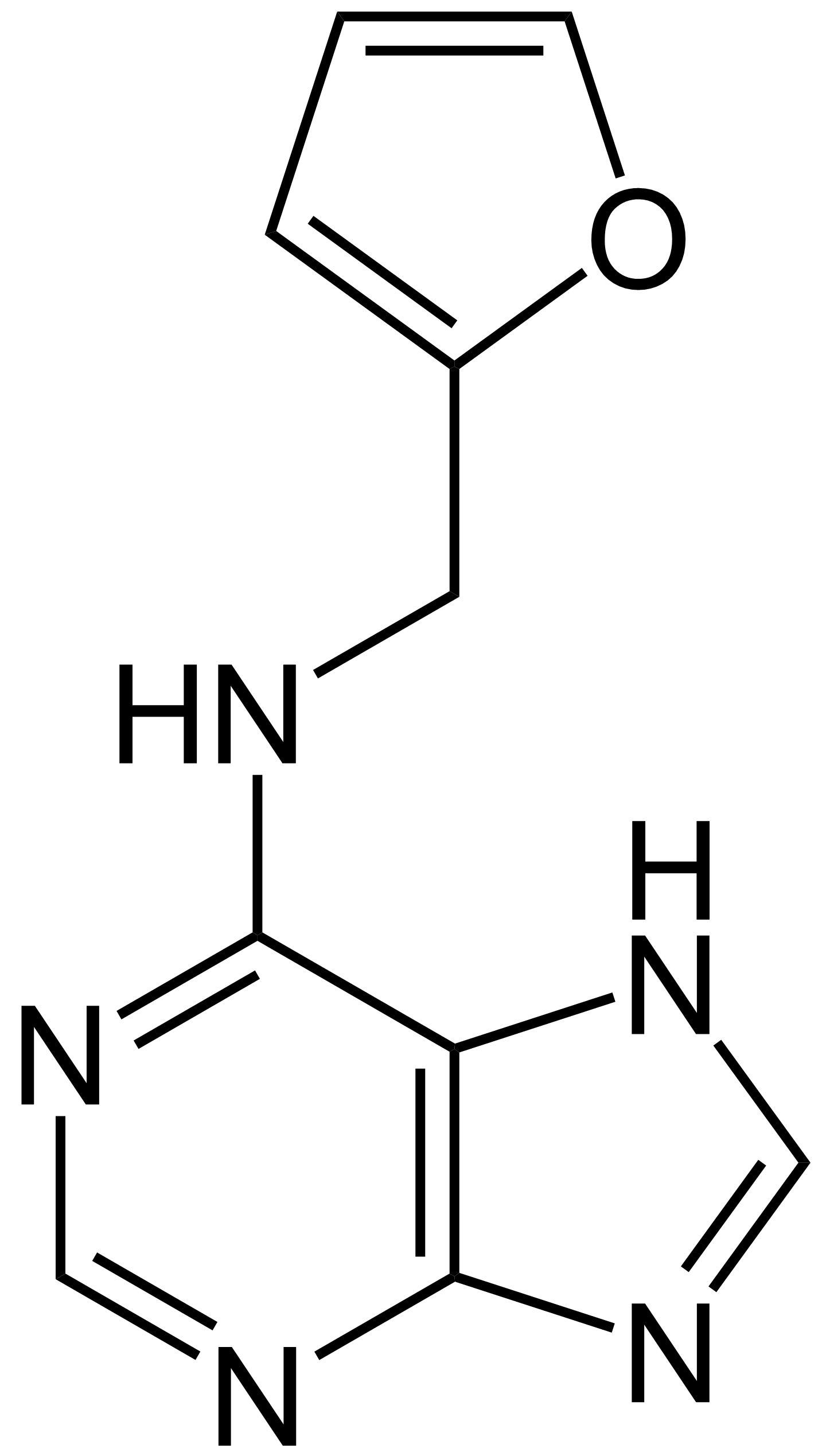 Chemical structure of kinetin, a plant growth hormone.